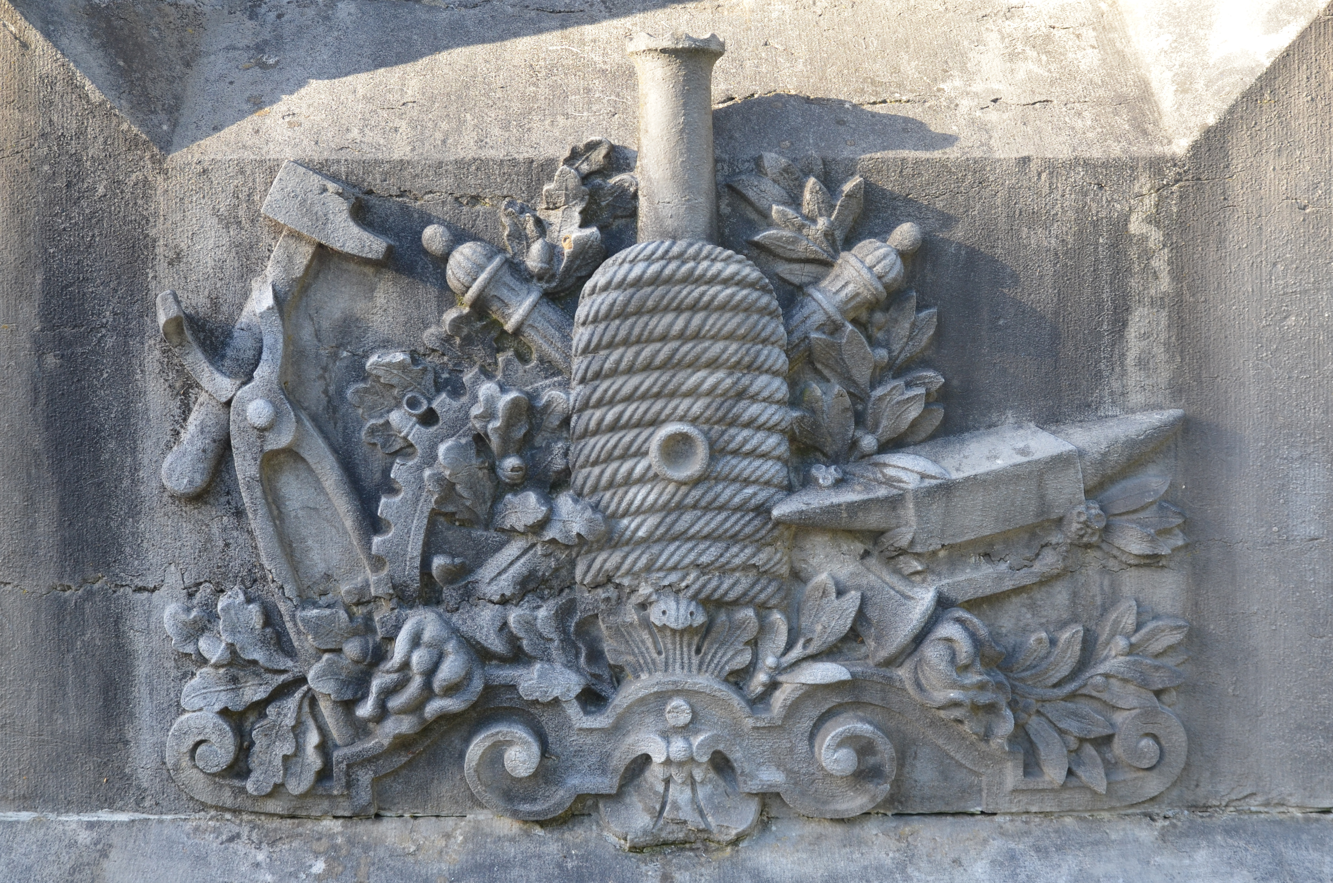 Funeral monument of Thomas Bonehill, engineer born in Bilston (England) on March 15, 1796 and died in Marchienne-au-Pont (Belgium) on August 3, 1858.